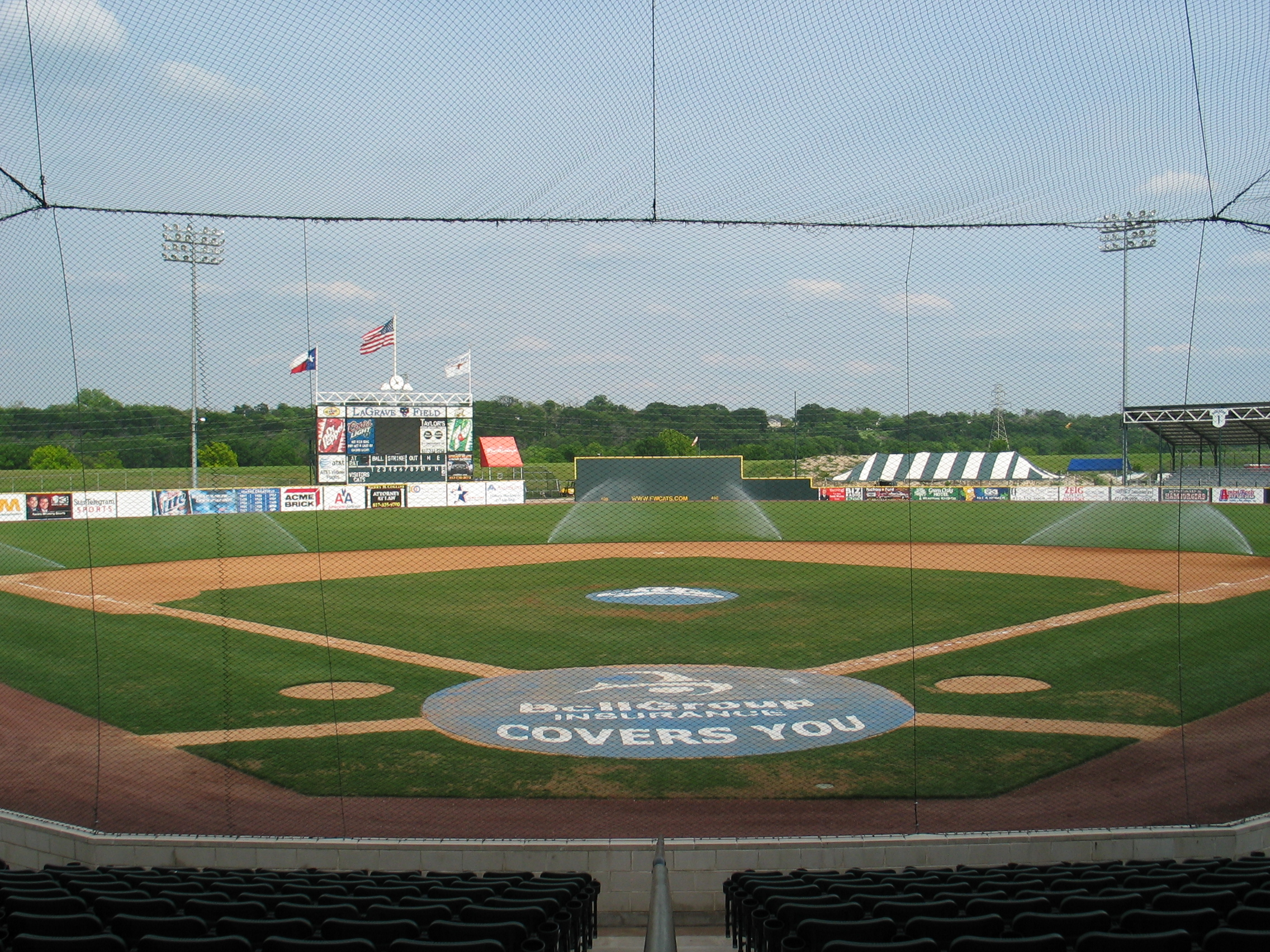 (Original text: This is a photograph of LaGrave Field after an exhibition game was played.)